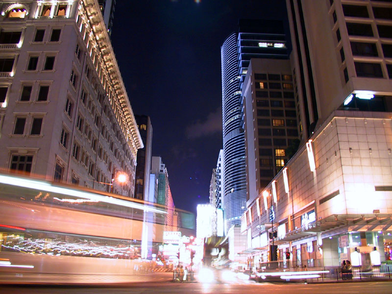 Nathan Road, Kowloon, HongKong